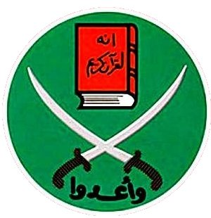 Logo Muslim Brotherhood